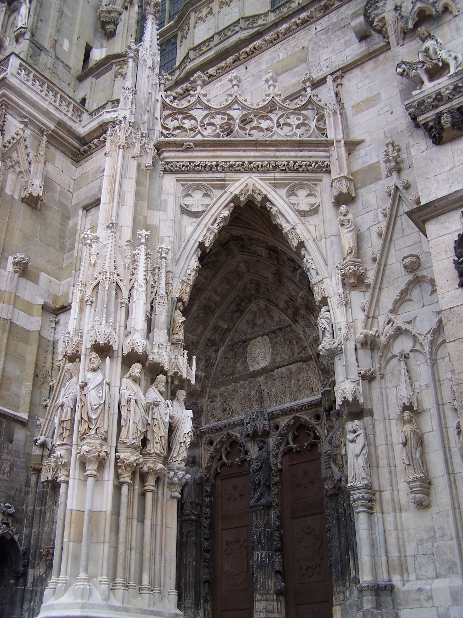 Main portal of St. Peter in Regensburg